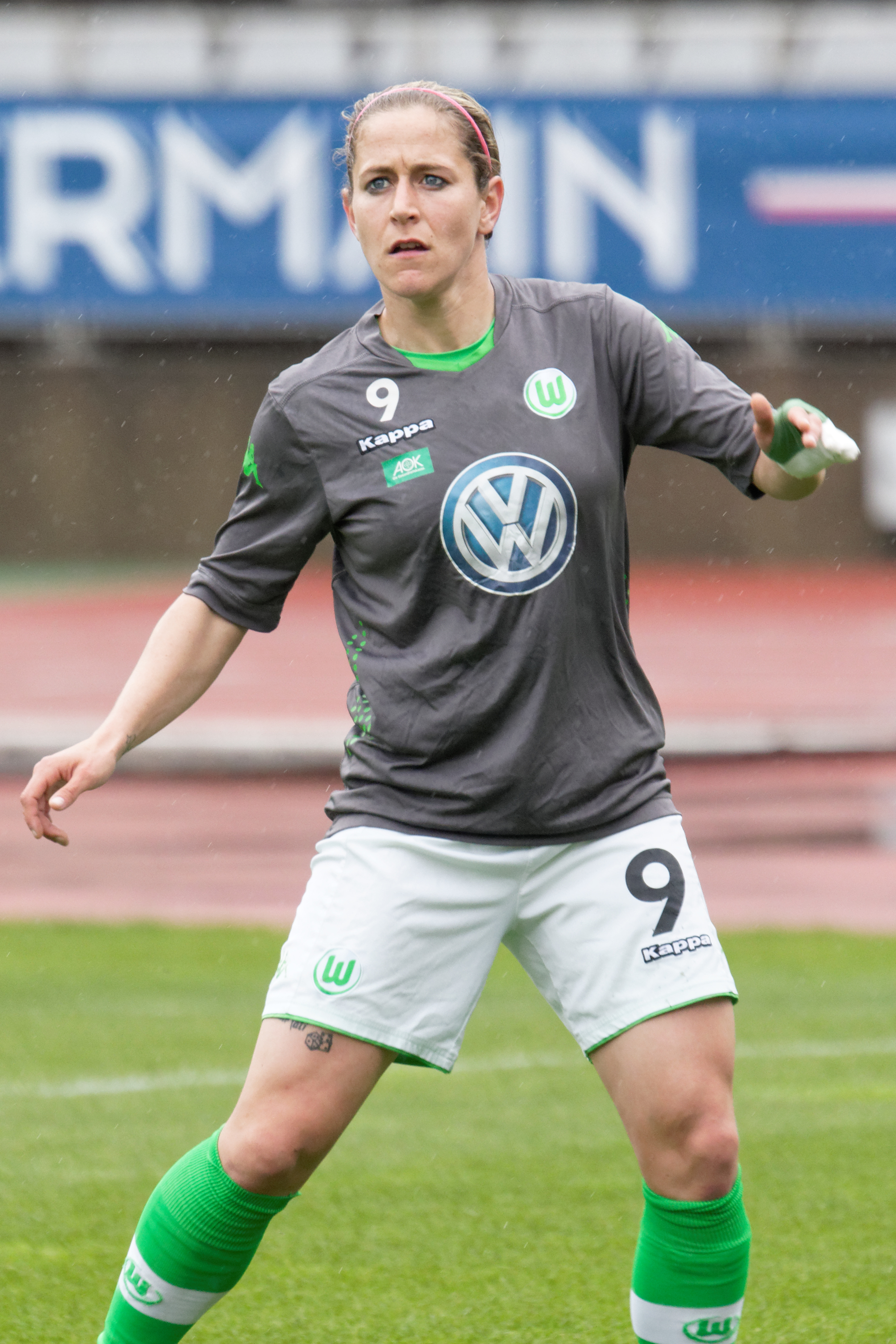 UEFA Women's Champions League, PSG - Wolfsburg, 26 April 2015.